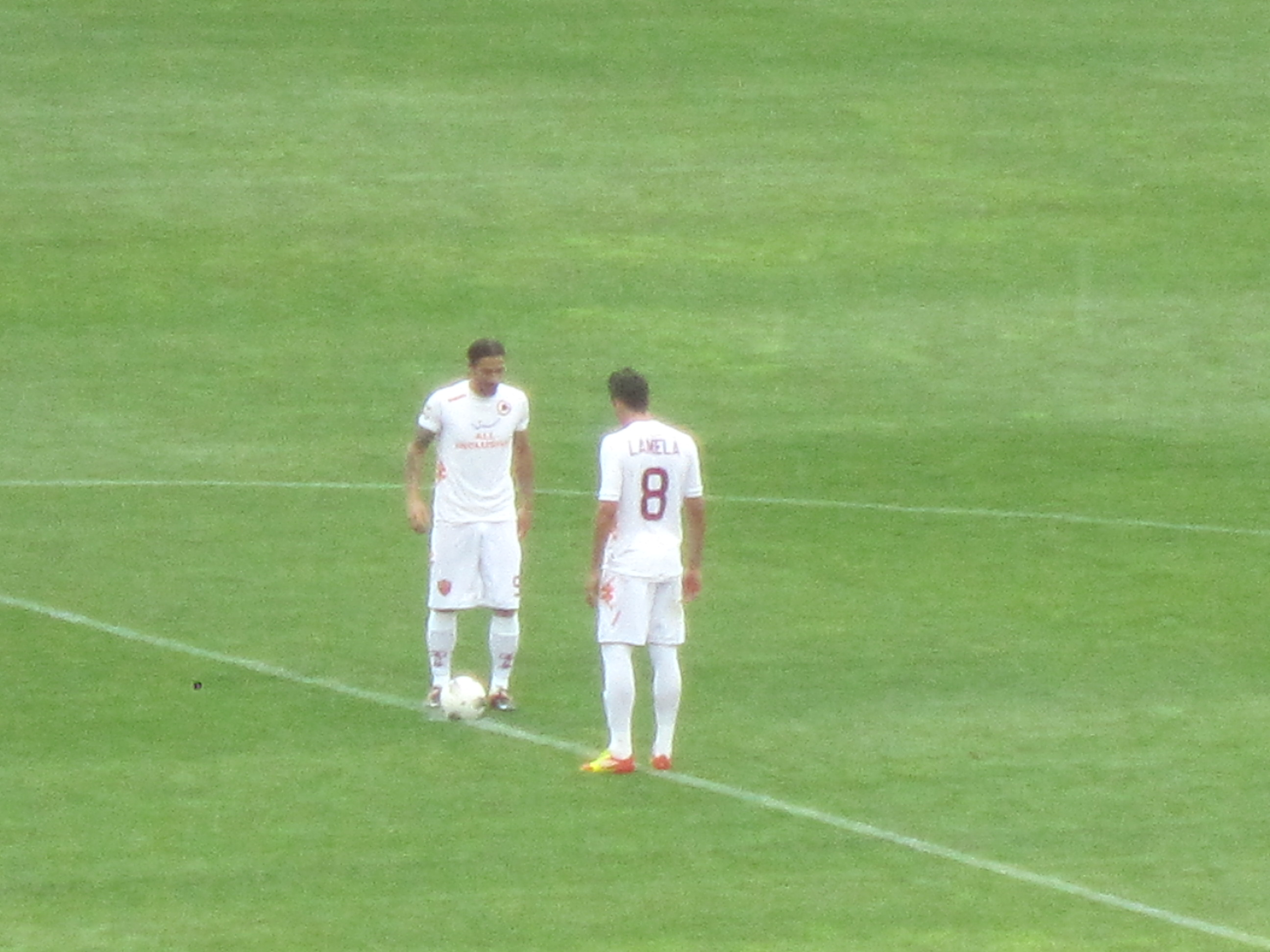 A.S. Roma footballers Osvaldo and Lamela, U.S. Lecce - A.S. Roma 4 - 2, Stadio Via del Mare, April 7th, 2012